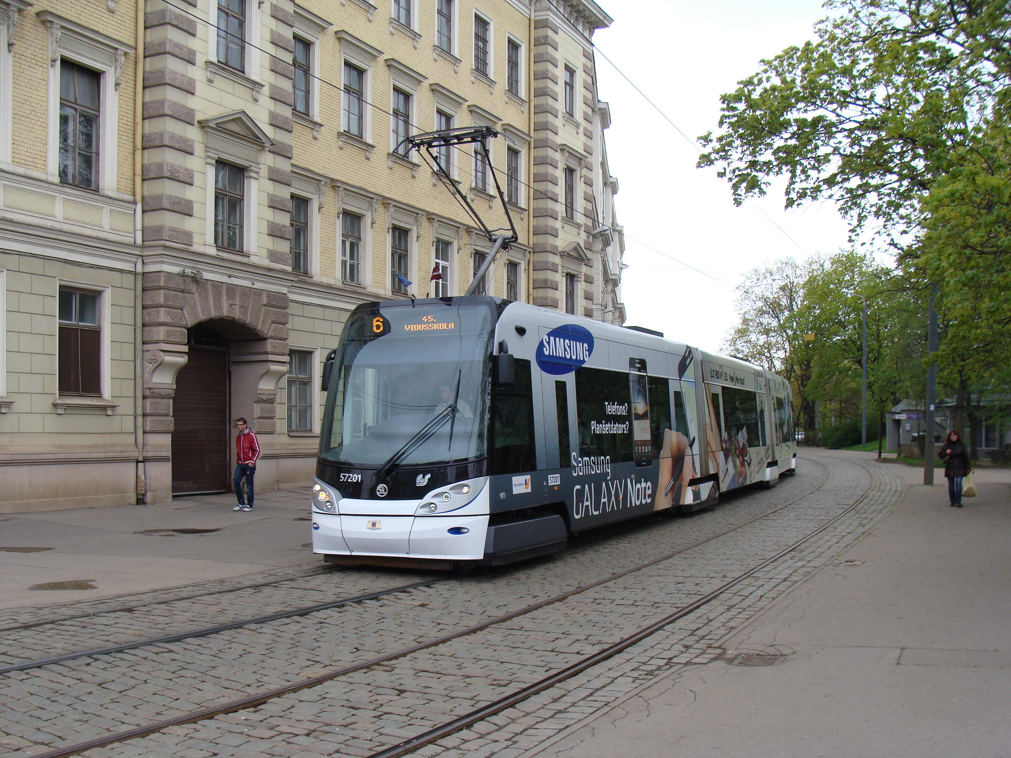 Tram stop at Radio Street in Riga